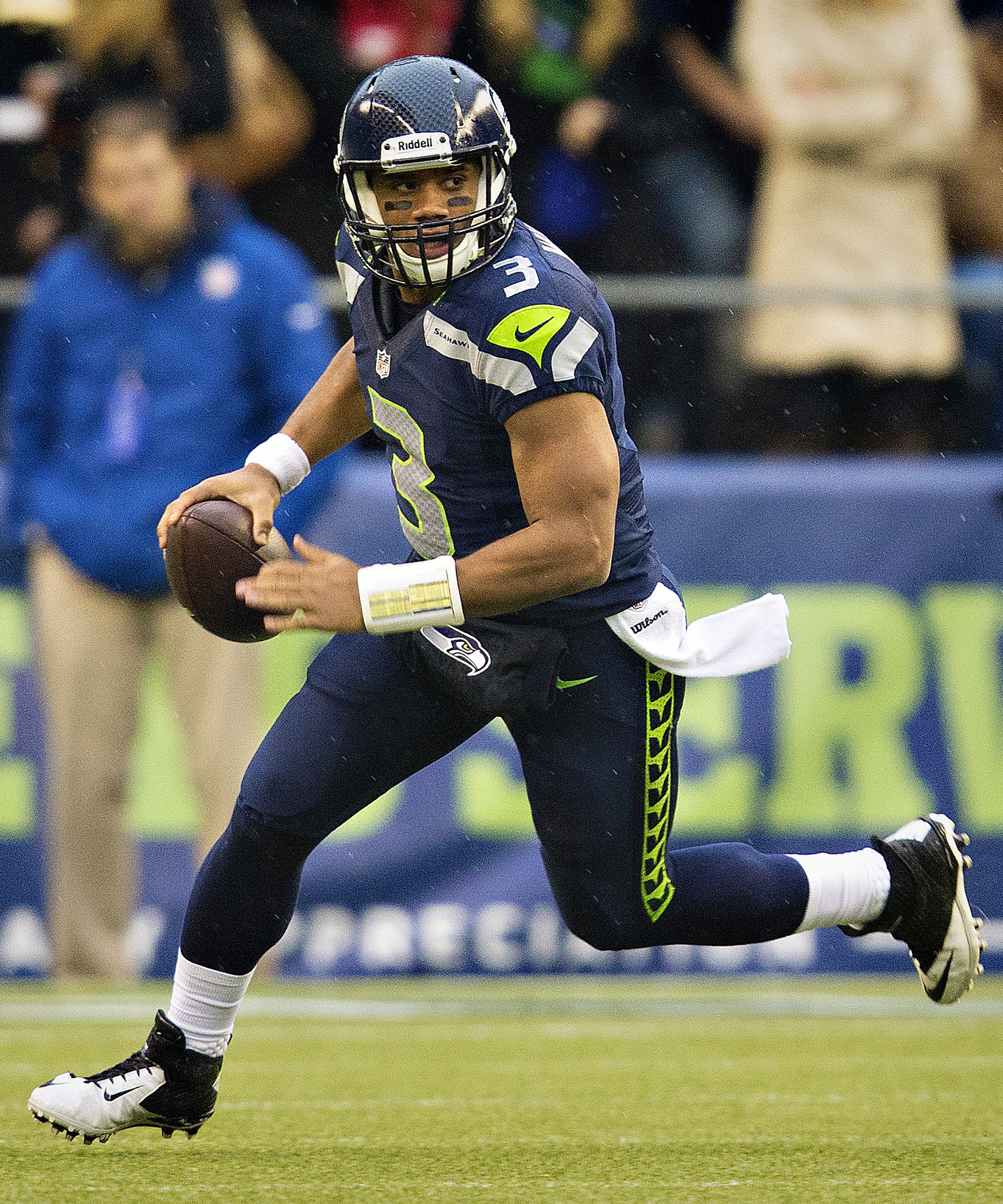 Russell Wilson vs. New York Jets, November 11, 2012